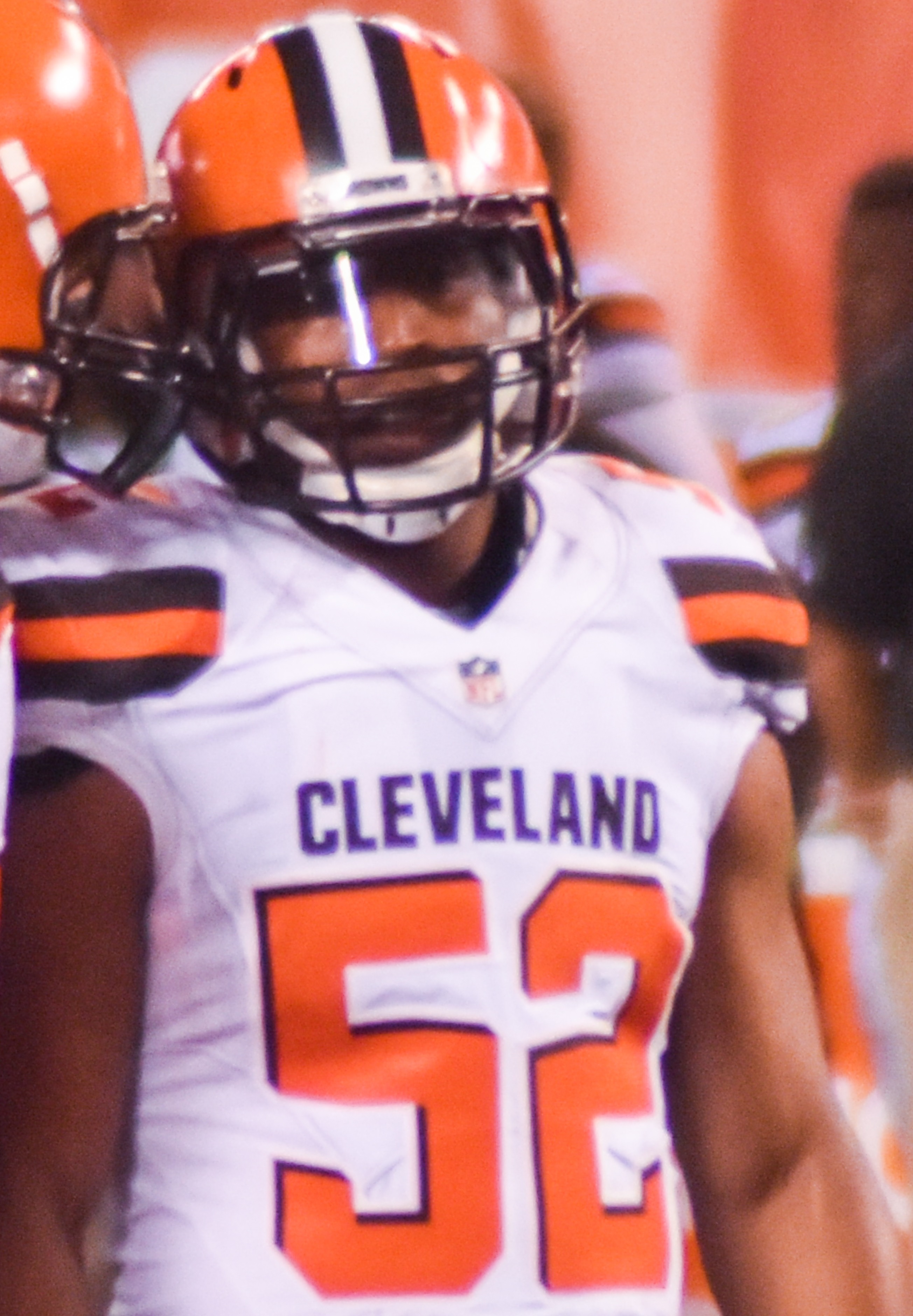 Browns vs Redskins